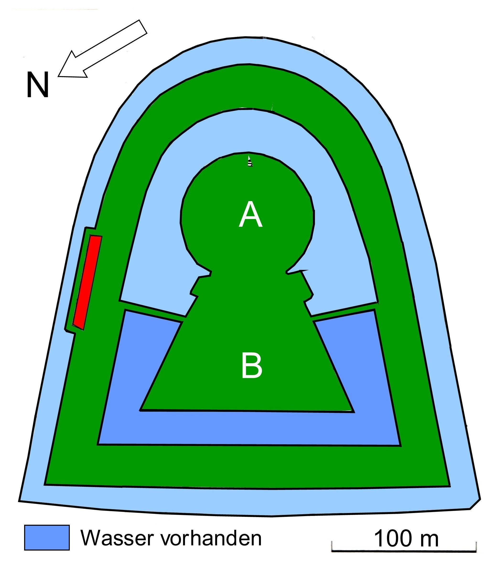 Imashirozuka Kofun (old burial place), Takazuka, Japan